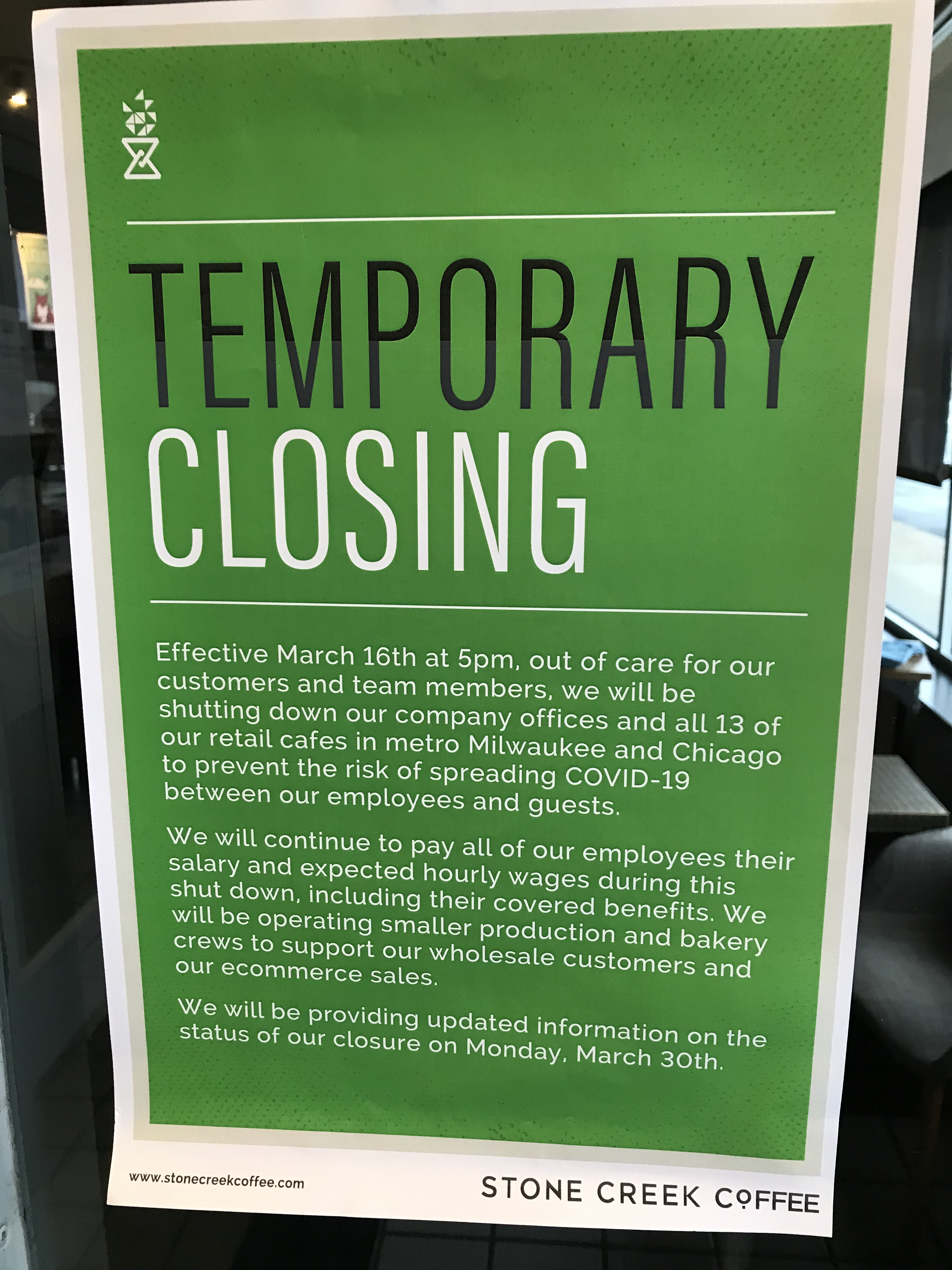 COVID-19 sign at coffee shop in Oconomowoc, WI on 23 March 2020 The text in this image should be transcribed and included in the description on this page. See also Transcription . The Google OCR tool may be of use in transcribing images.